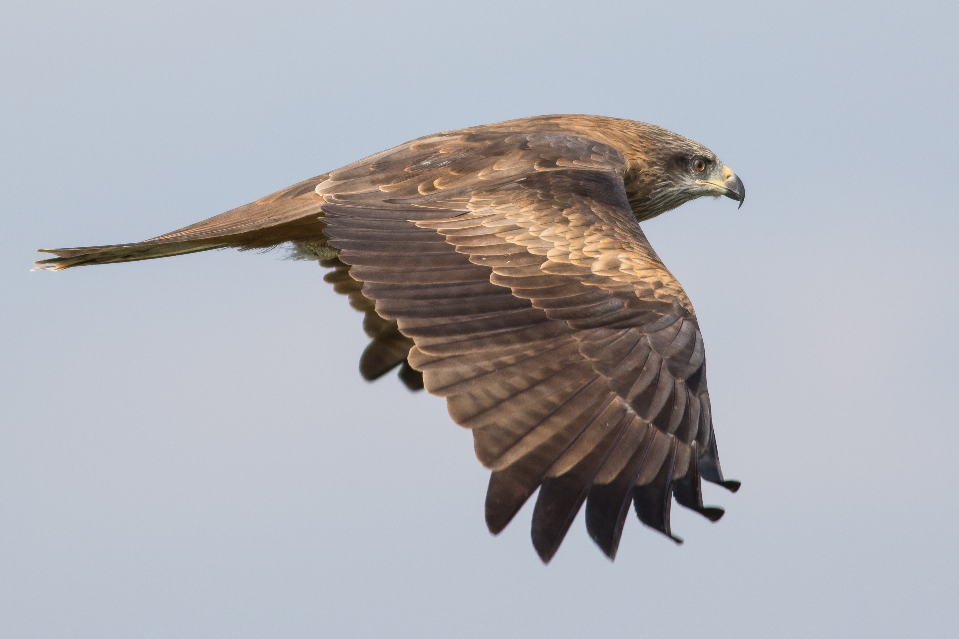 Milvus migrans (Black kite). Valley of Springs Region, Israel.